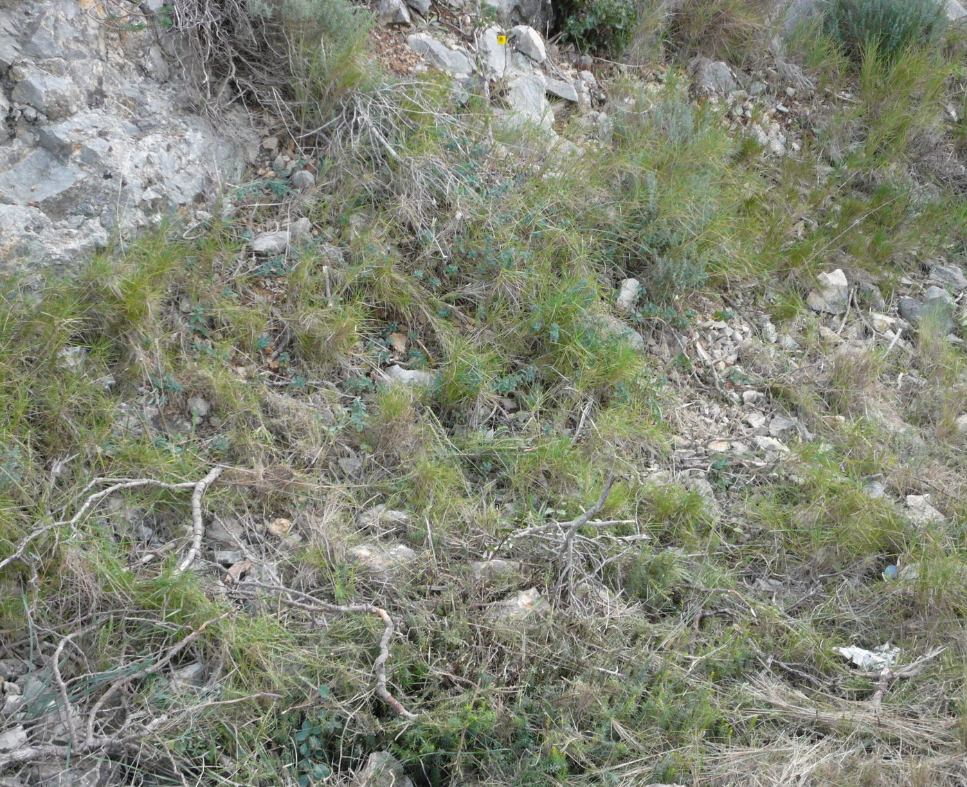 Brachypodium retusum in Canyelles, Garraf, Catalonia. I made the photo on january 28th 2007.